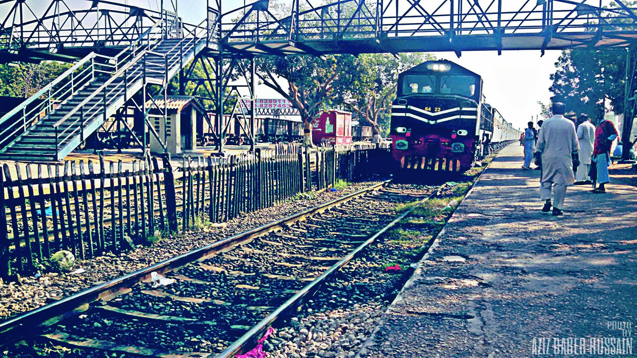 Drigh Road railway station,Karachi,Pakistan Coordinates: 24.8863°N 67.1261°E